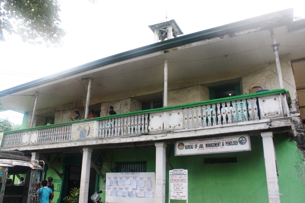 More than a century-old municipal building and cuartel.